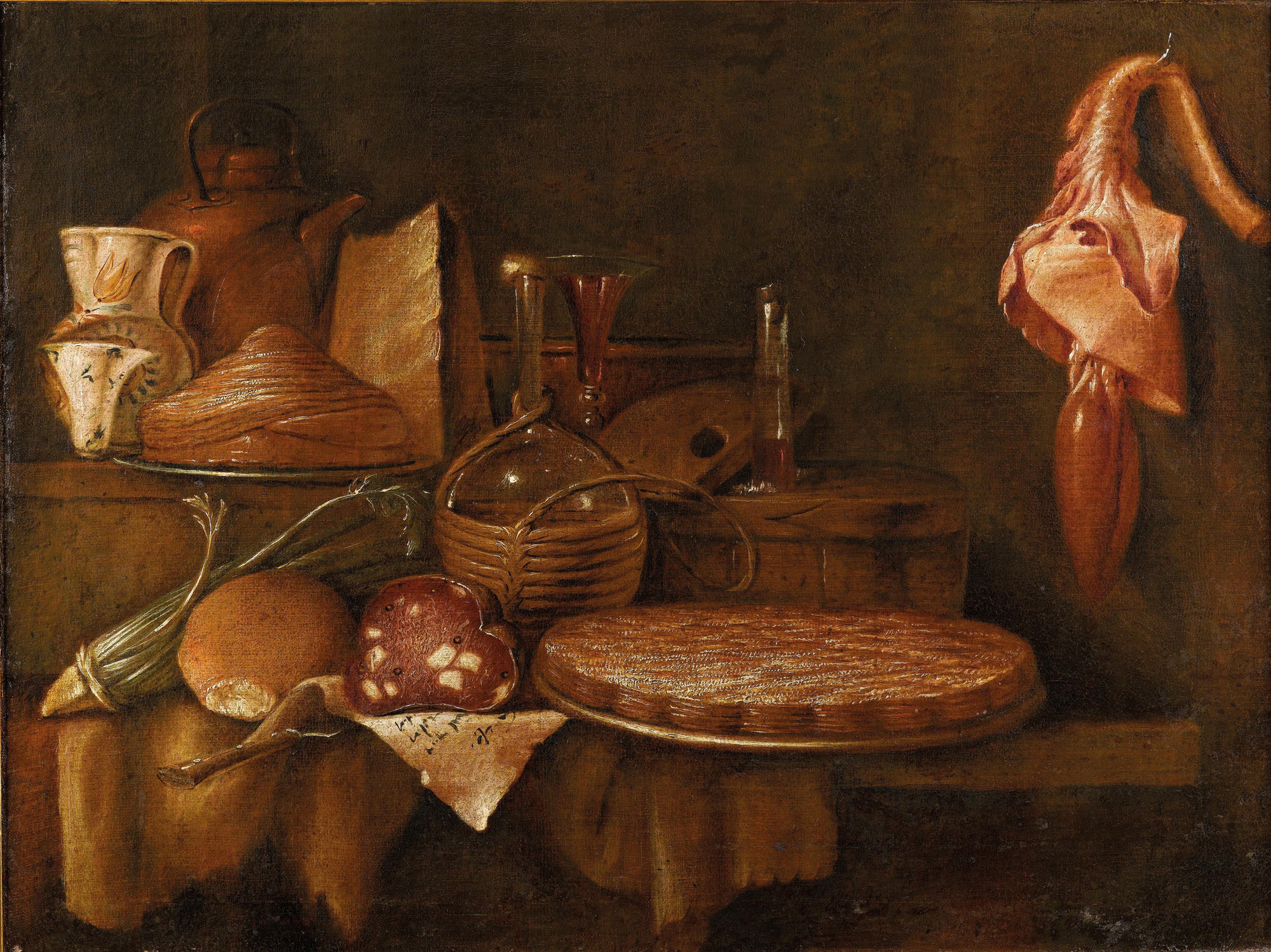 GIAN DOMENICO VALENTINO, Valentini (Roma 1639- 7 dicembre 1715), A Kitchen Still Life